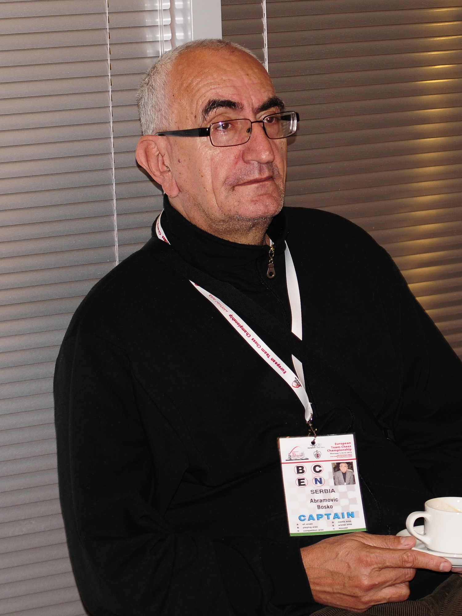 GM Boško Abramović, European Chess Team Championship Warsaw 2013